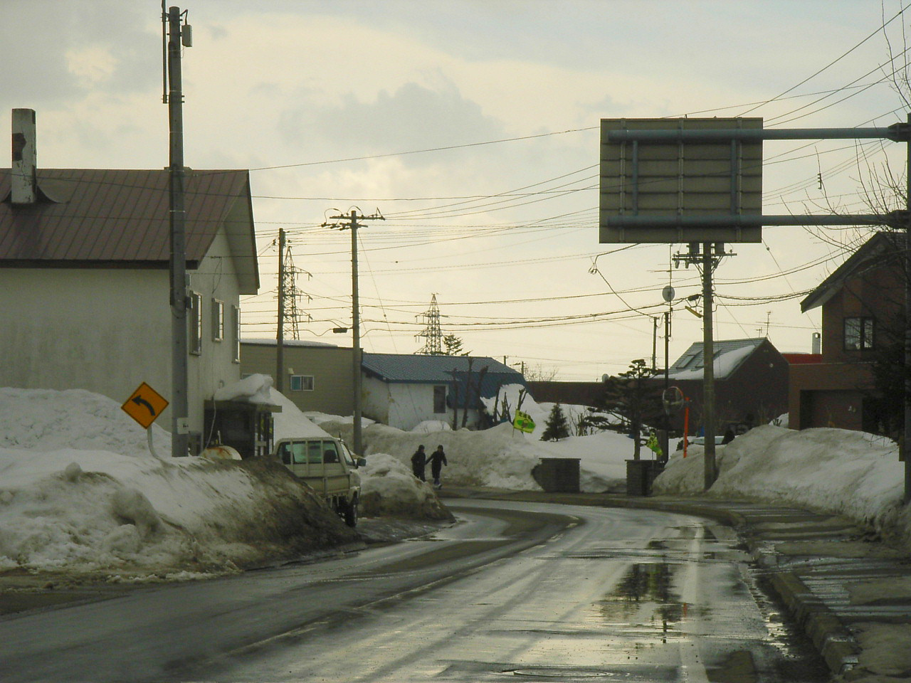 Hokkaidō Prefectural Road 112, Sapporo - Tōbetsu Line. Suehiro, Tōbetsu, Hokkaidō prefecture, Japan. Toward southwest from the Suehiro Crossing with Route 337 (National Highway 337).